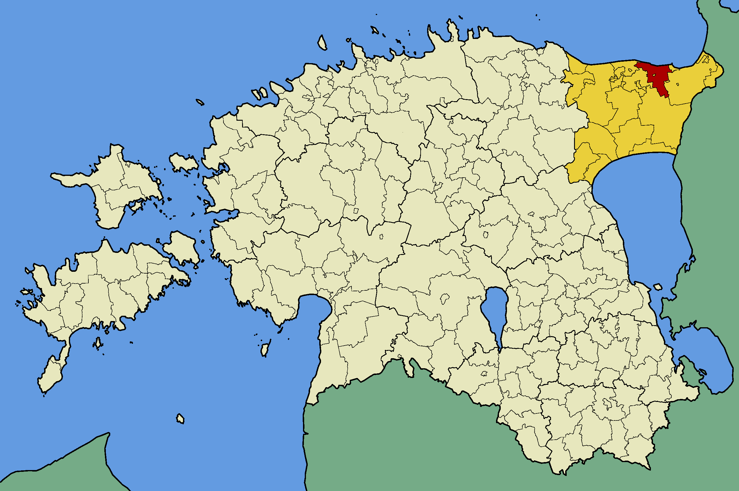 Map of Estonia with borders of municipalities (parishes). Ida-Viru county and Toila municipality emphasized.